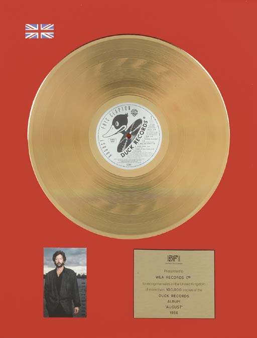 This is a gold certification sales award for Eric Clapton's album "August". This commemorates the sale of over 100.000 copies in the United Kingdom. The album later reached the platinum levels selling over 300.000 copies in the UK. This picture was taken and revised by myself in early 2003.